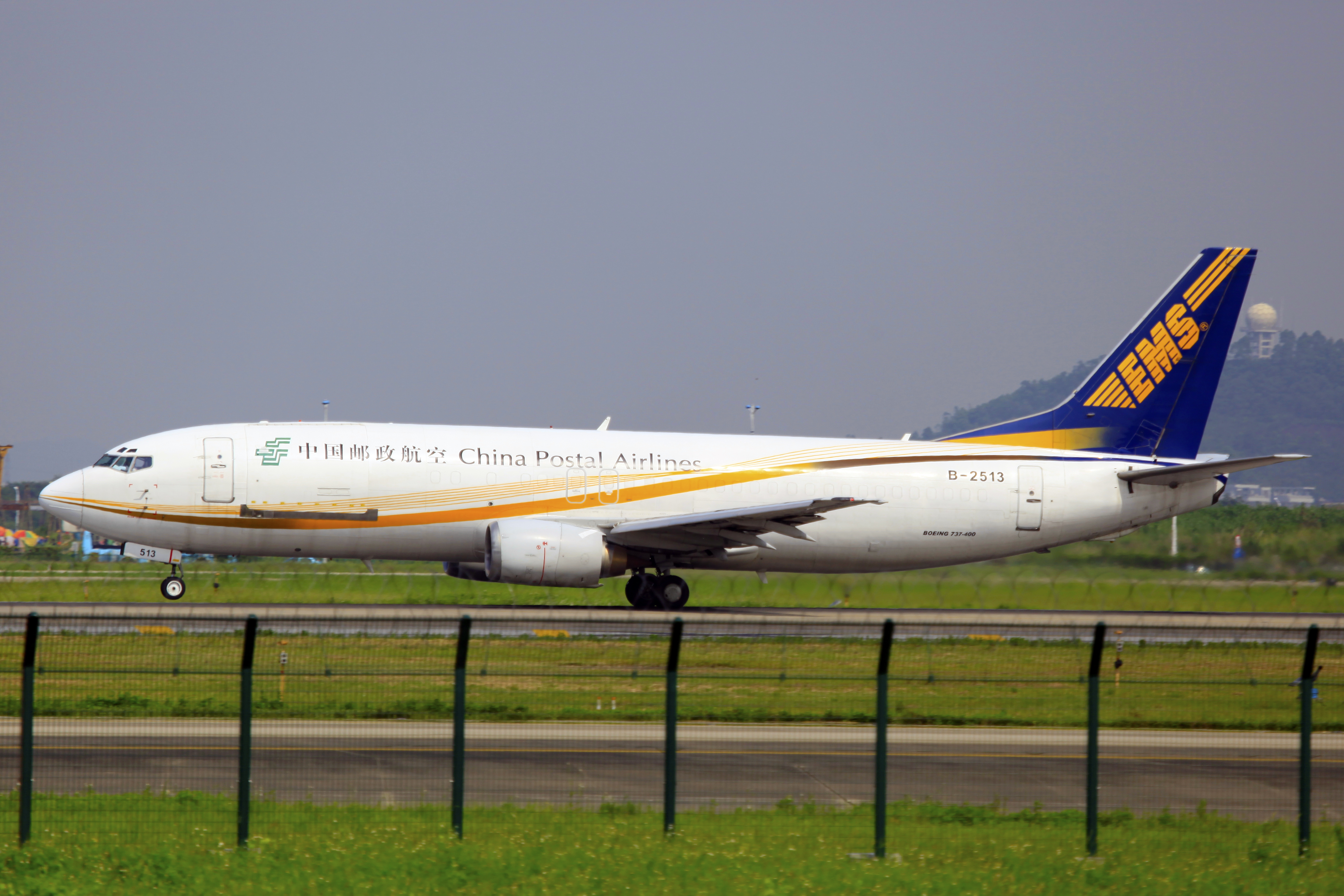 B-2513 | China Postal Airlines | Boeing 737-45R(SF) | Guangzhou Baiyun International Airport [CAN]